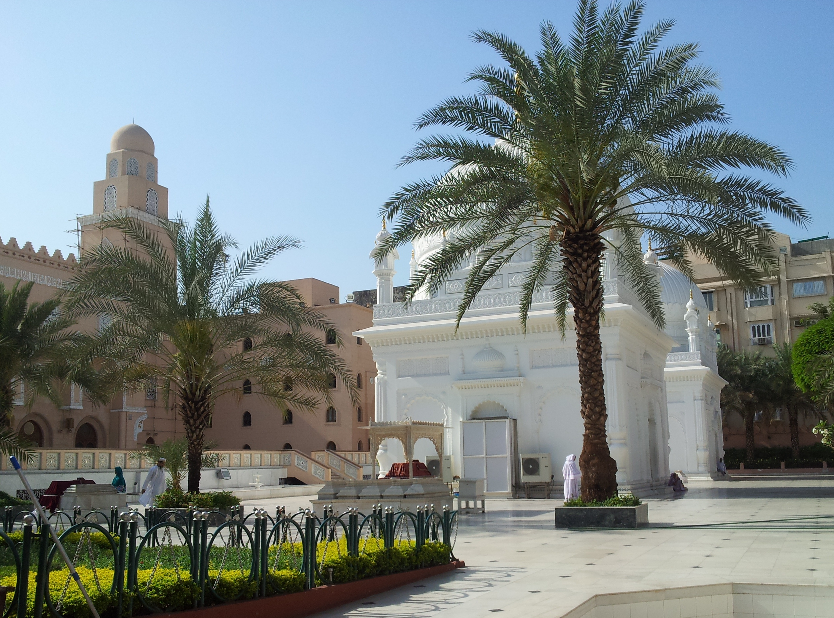 Masjid Moazzam and Rauza,Surat